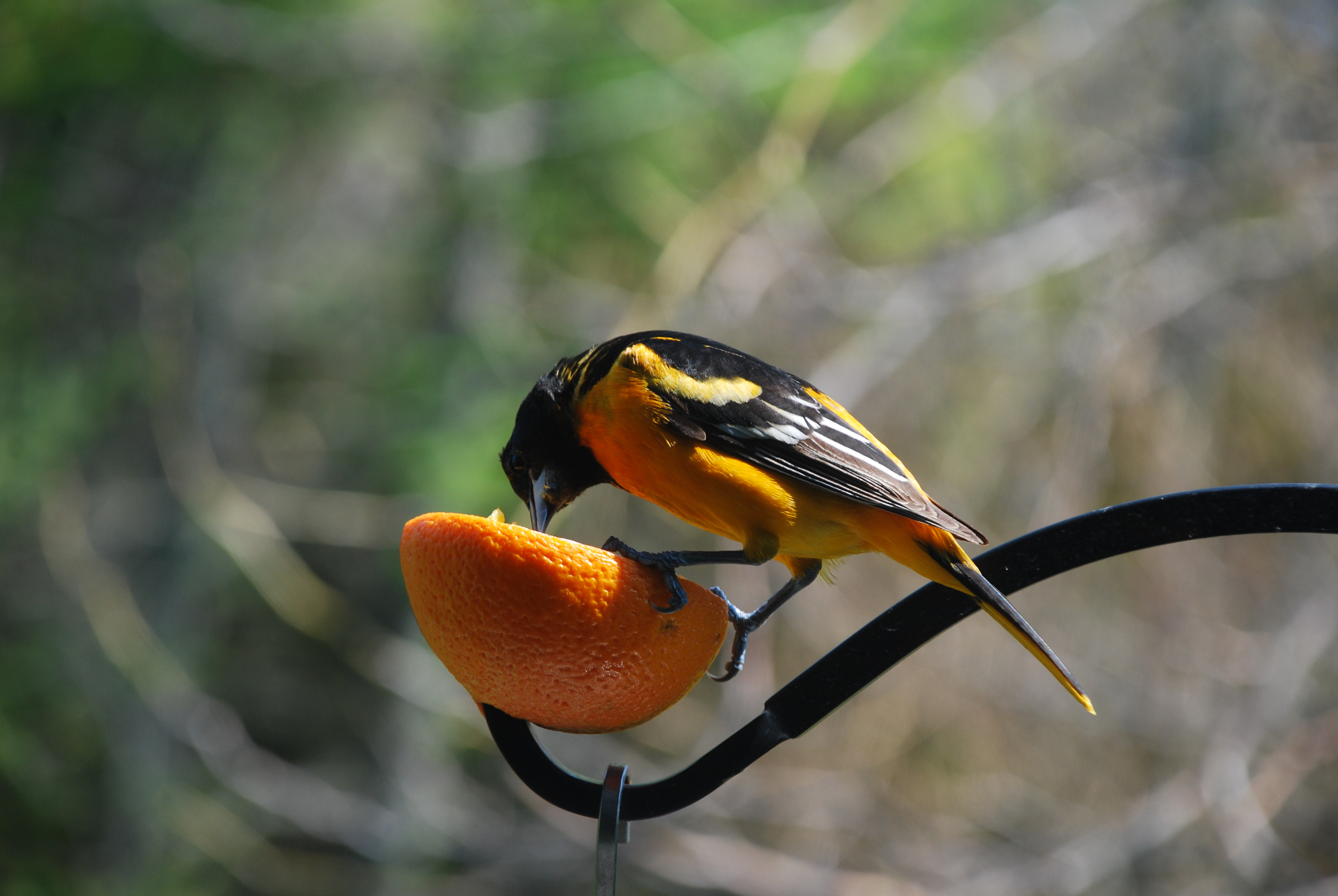 Baltimore oriole gaping, Prince Edward County, Ontario, Canada